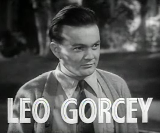 Cropped screenshot of Leo Gorcey from the trailer for the film Gallant Sons